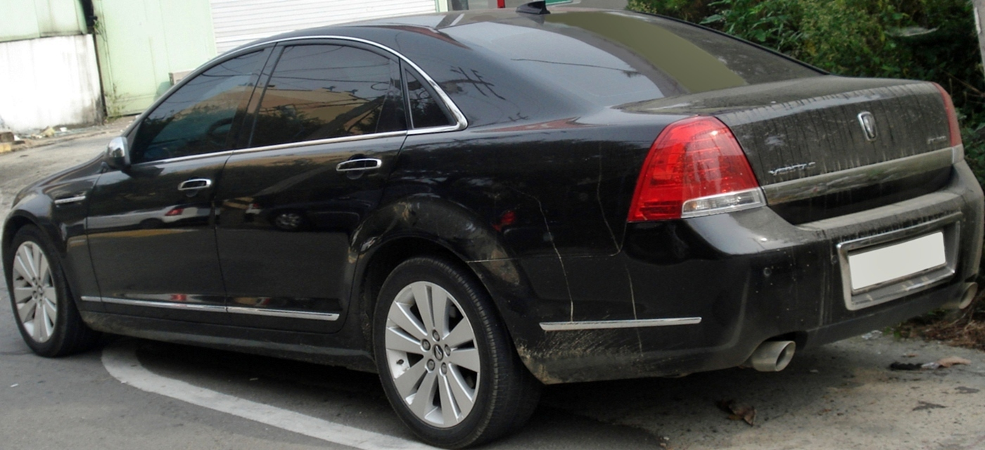 Daewoo Veritas